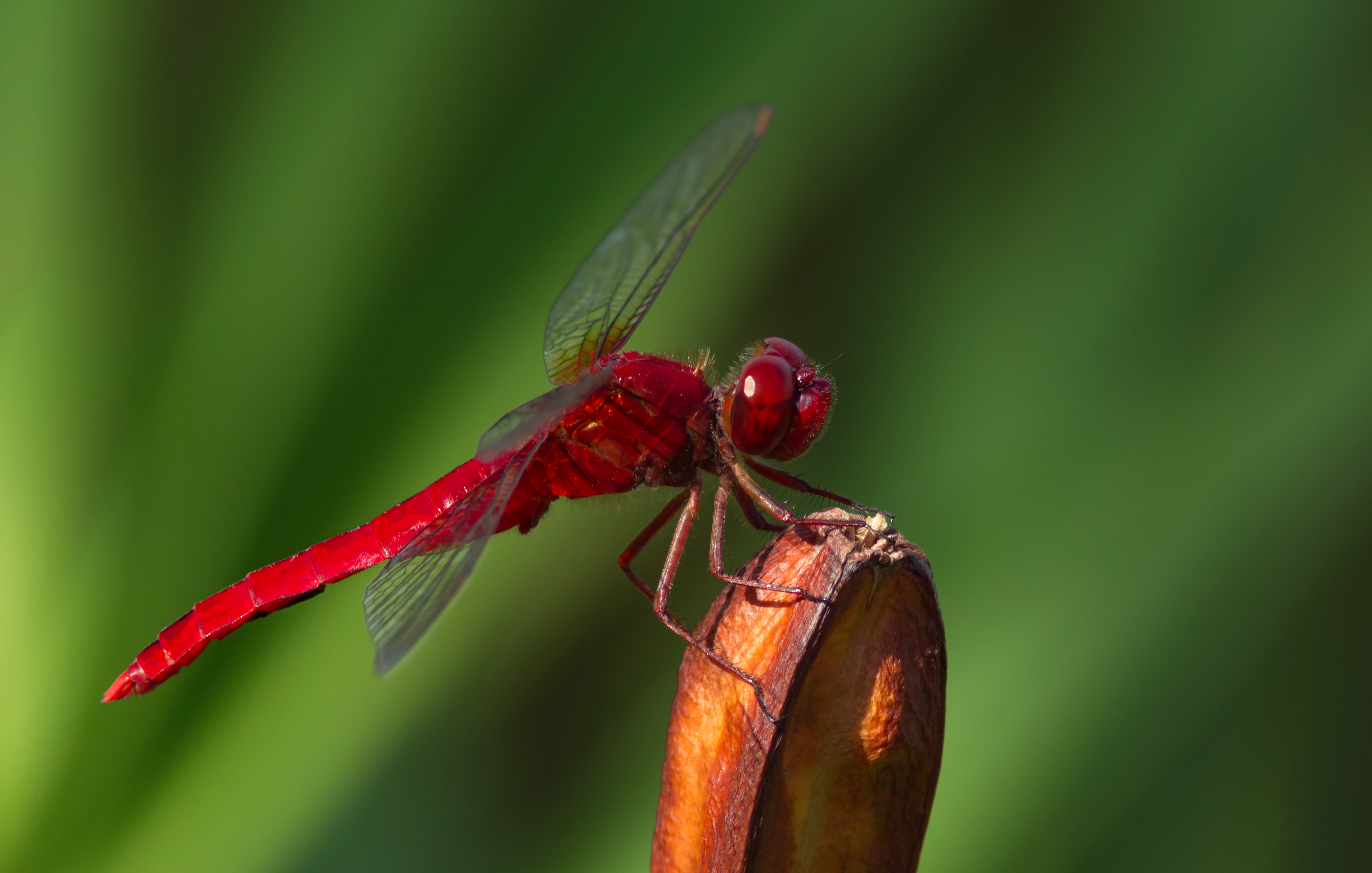 Scarlet skimmer, taken at Keitakuen. This is Crocothemis servilia mariannae Kiauta, 1983. (ID confirmed by Noppadon Makbun)